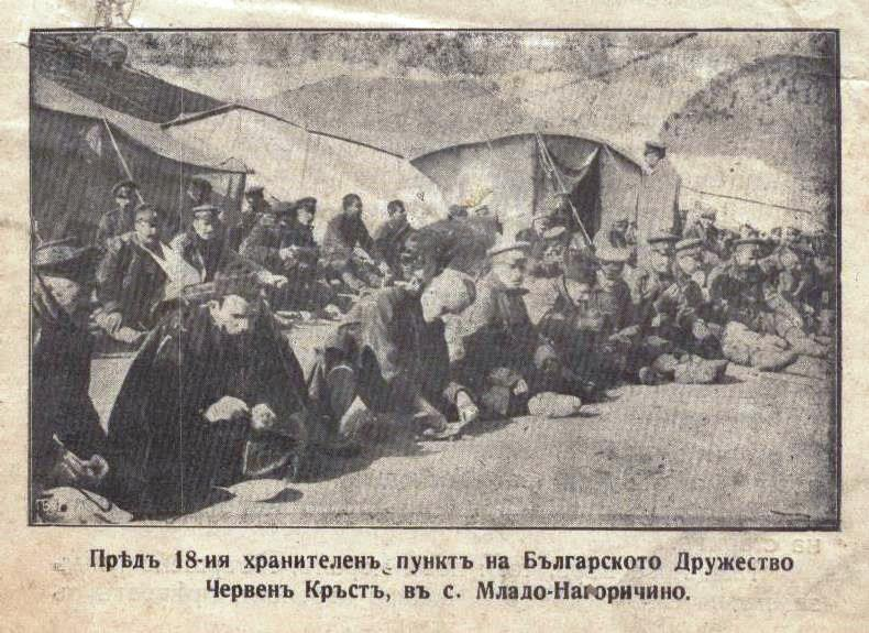 In front of 18th Refreshment Station of the Bulgarian Red Cross, village Mlado Nagoricane. Picture from the Bulletin of the Bulgarian Red Cross, year 1, vol. 4, 1916